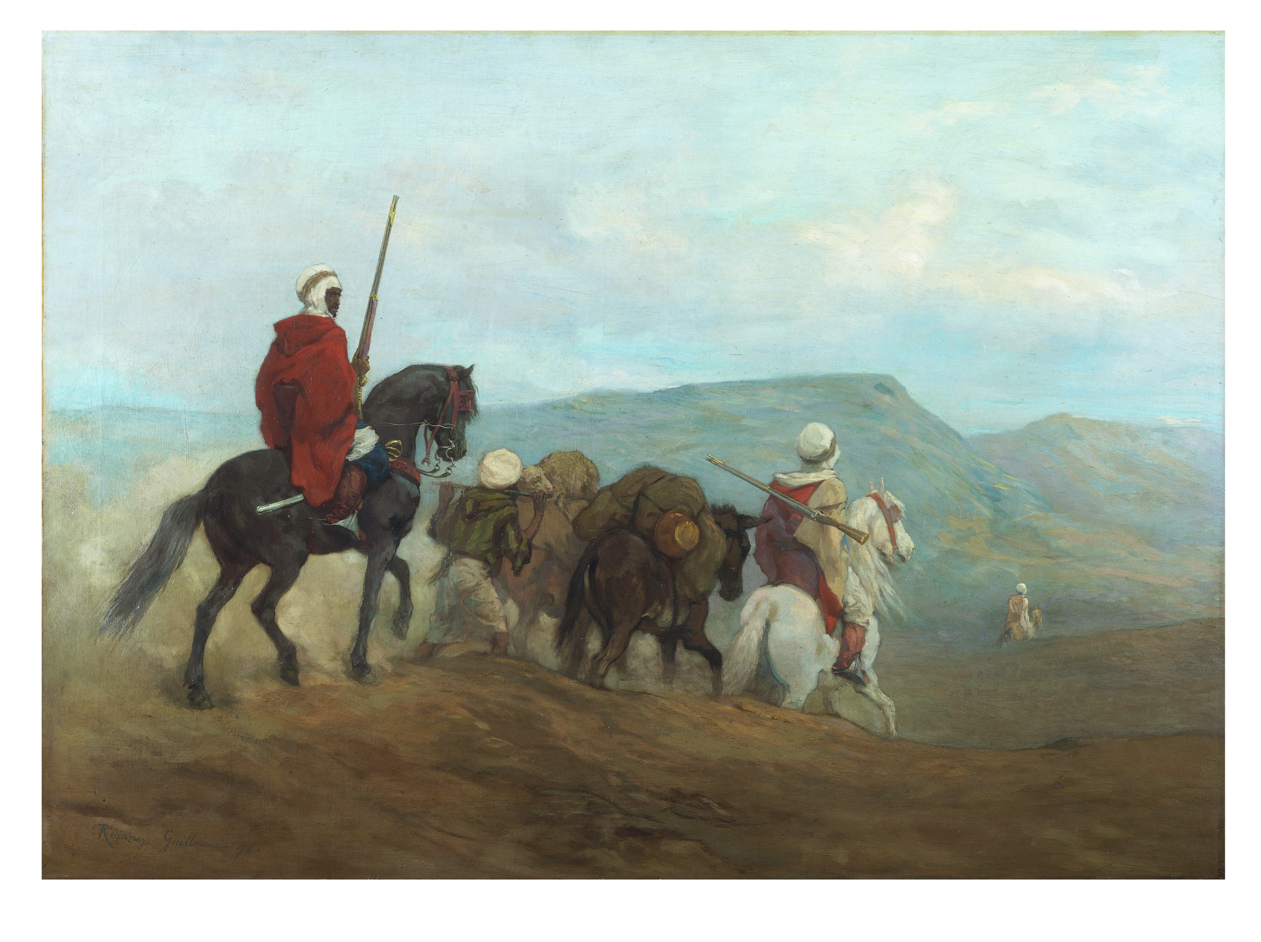 This is a fine example of Guillaume Régamey art he devoted almost entirely to the depiction of horses and horsemen. This painting shows three Algerian Spahis cavaliers descending a declivity in the desert and a man on foot driving two laden mules. The bright light and subject matter is characteristic of the Orientalist movement, a 19th-century phenomenon, which pervaded French art by combining elements of Romanticism (such as the attraction to distant and Middle East settings) and Realism in the objective rendering of the figures.